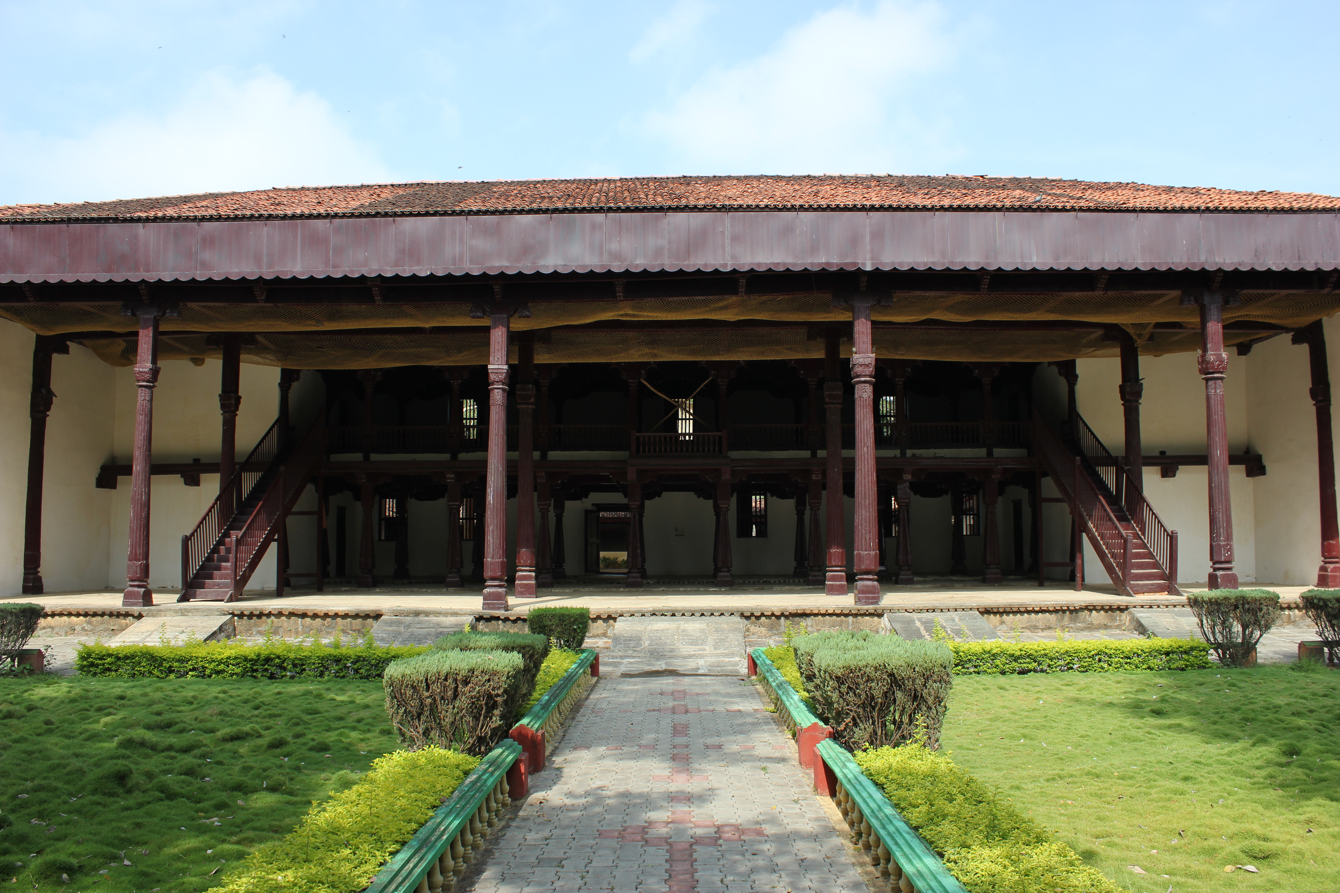 This photograph was taken at the Shivappa Nayaka palace in Shivamogga city (formerly Shimoga) in Karnataka state, India